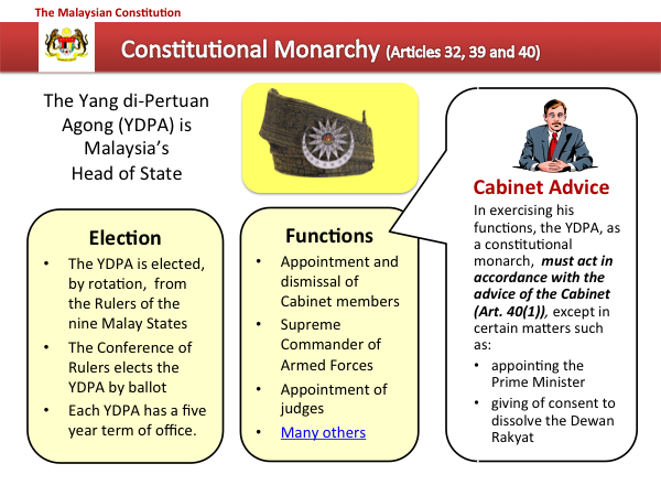 A diagram of the Malaysian Constitutional monarch